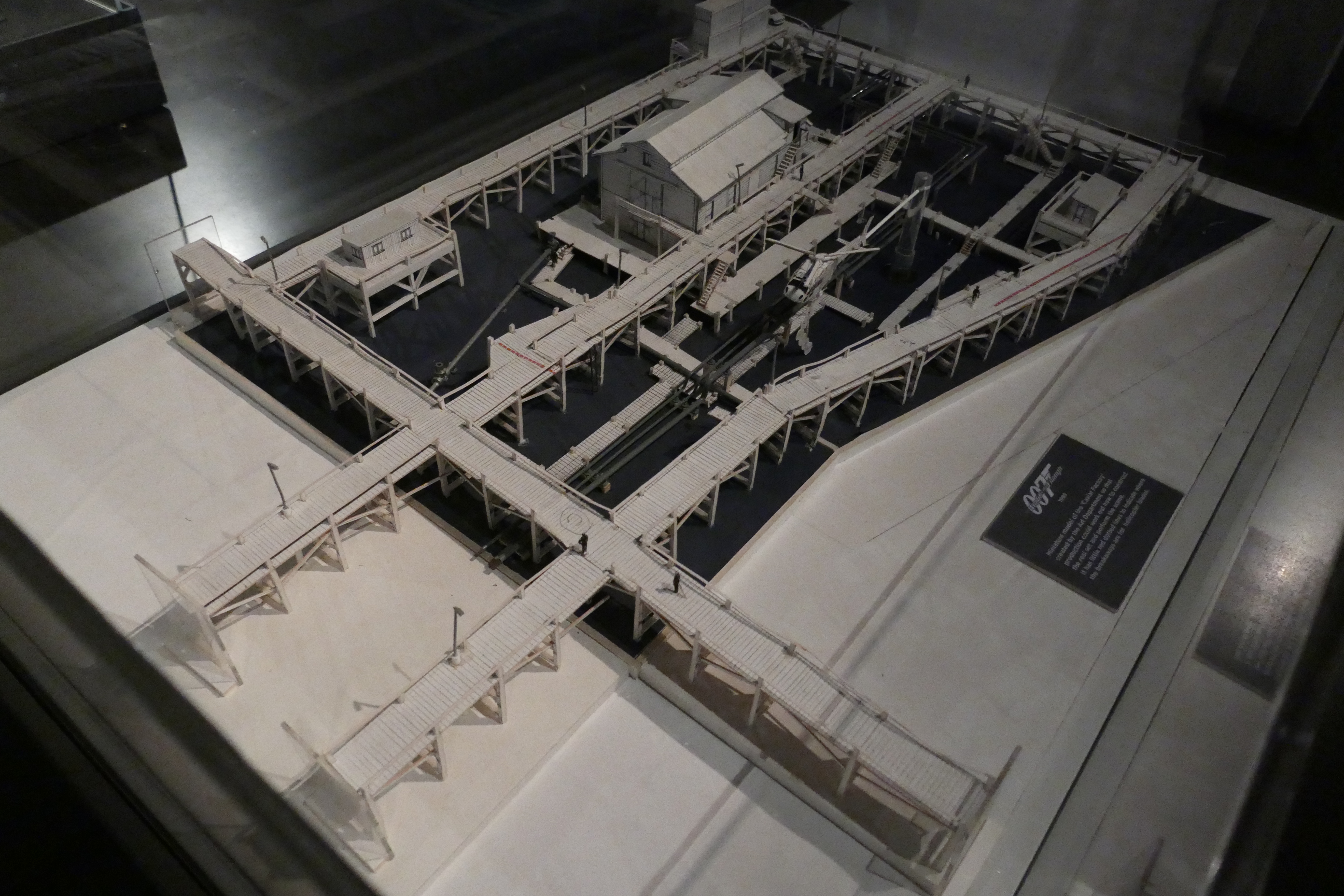 "Caviar Factory" miniature model built for the movie "The World Is Not Enough" by the production so they can figure out how to build the set National Film Museum, London - Bond in Motion Exhibition (2017)